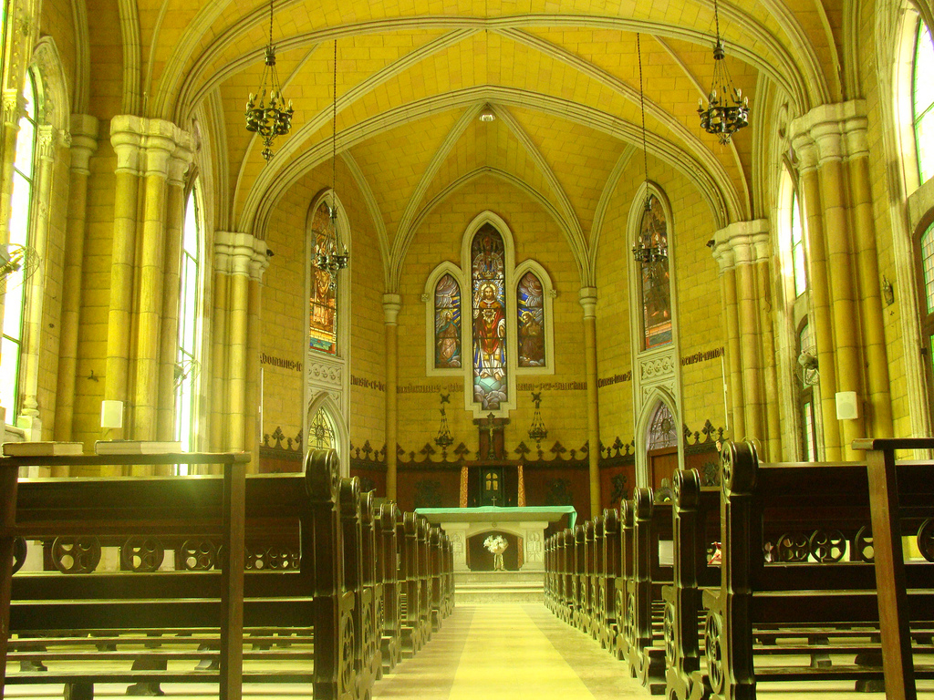 St.Xaviers College, Mumbai(Bombay) Windows... the true mind is which shows you an insight into your own self- of your follies, of good times, of memories, of past doings and what could be your possible future decisions. This Church at ST.Xaviers College, Mumbai, India (Best College in the world) has been a place for many students to pray, cry, confess, some of the deepest feelings of a human heart are there and Christ listens to them all even if the world does not listen to you, for it is only fair that we all being his children give and take our feelings with God, for these habits somewhere down the line help us in our pursuit of fulfiing our birth as humans.